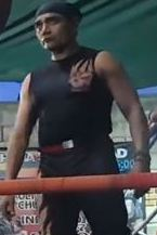 Mexican professional wrestler Judas el Traidor in 2018.